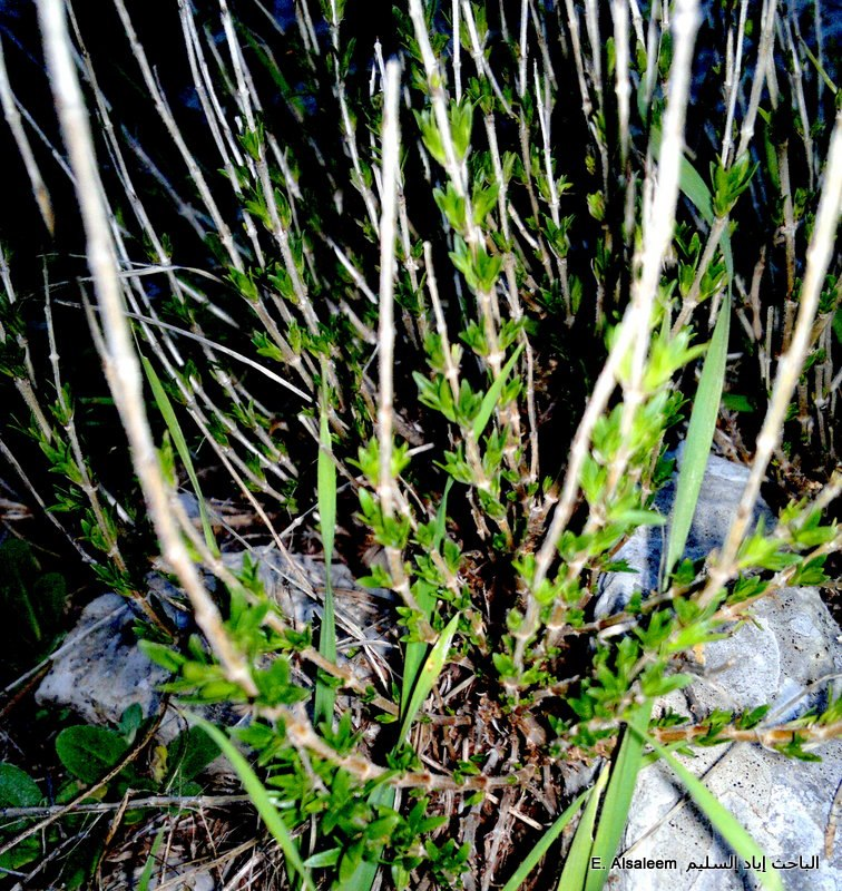 نباتات برّية سورية تؤكل